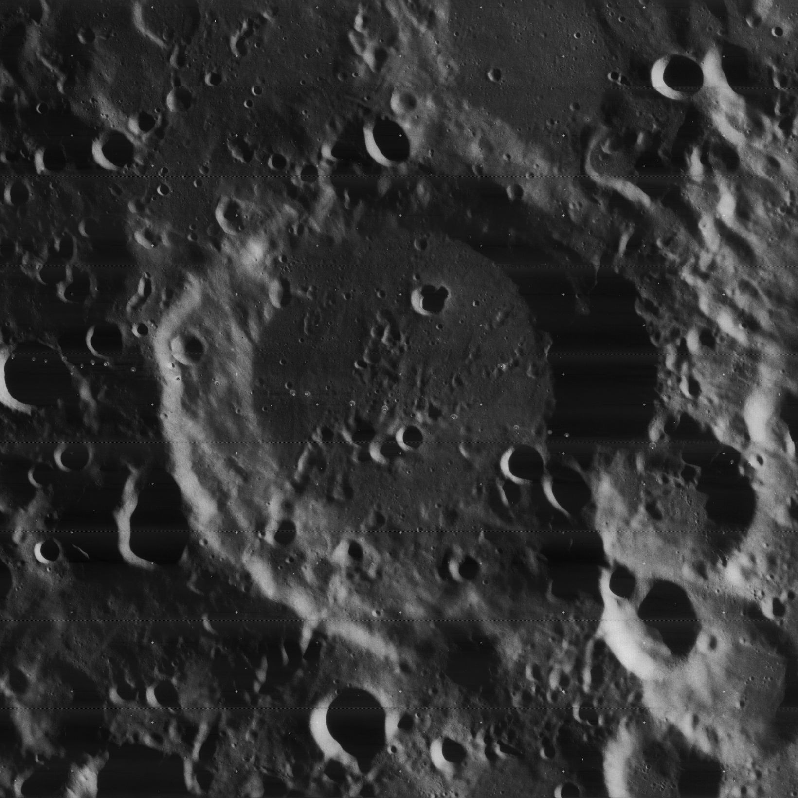 Pingré, on the moon. Diagonal row of dots crossing center of picture are blemishes on original.